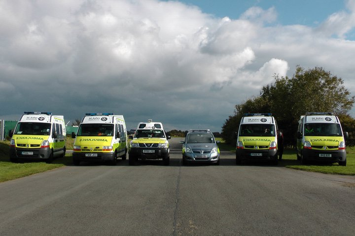 The range of St John UK vehicles. Taken prior to a memorial service at Aintree Birkes